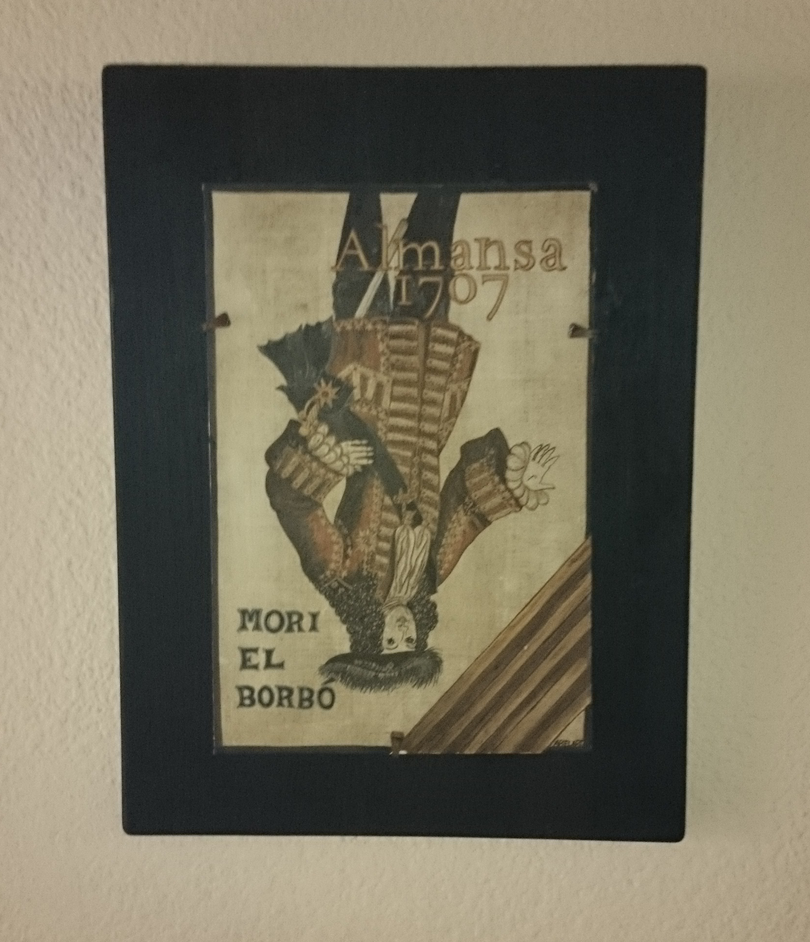 Philip V of Spain 's poster turned upside down as a sign of rejection to the Kingdom of Valencia's military occupation started in Almansa in 1707.